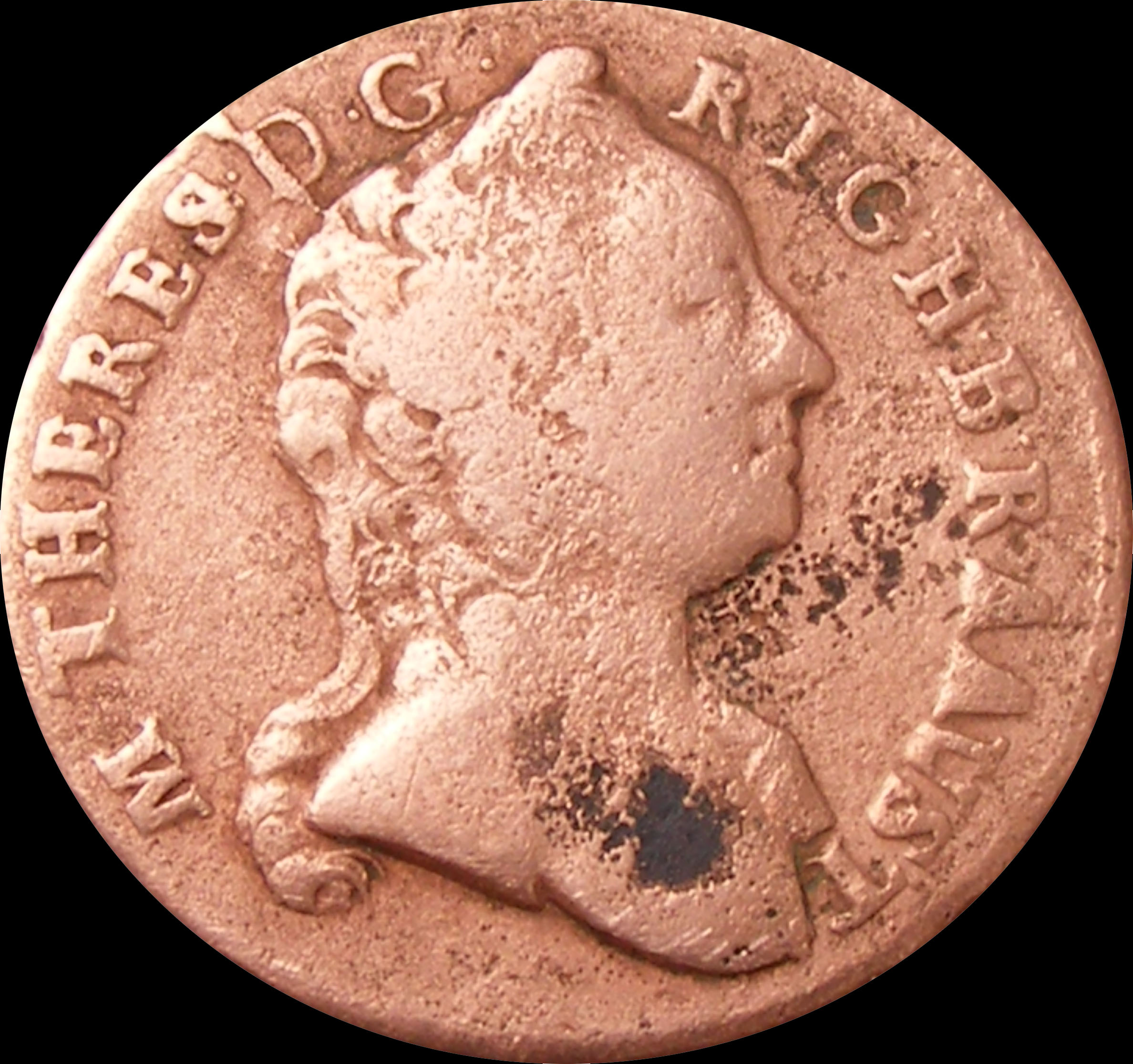 Austro-Hungarian Empire: Maria Theresia: 1 kreutzer 1760 W (minted in Breslau, now in Poland). Obverse side.